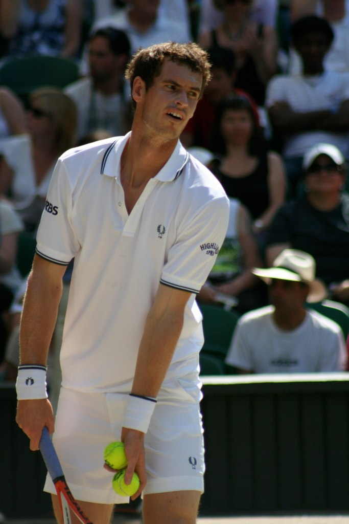 Andy Murray Wimbledon 2009